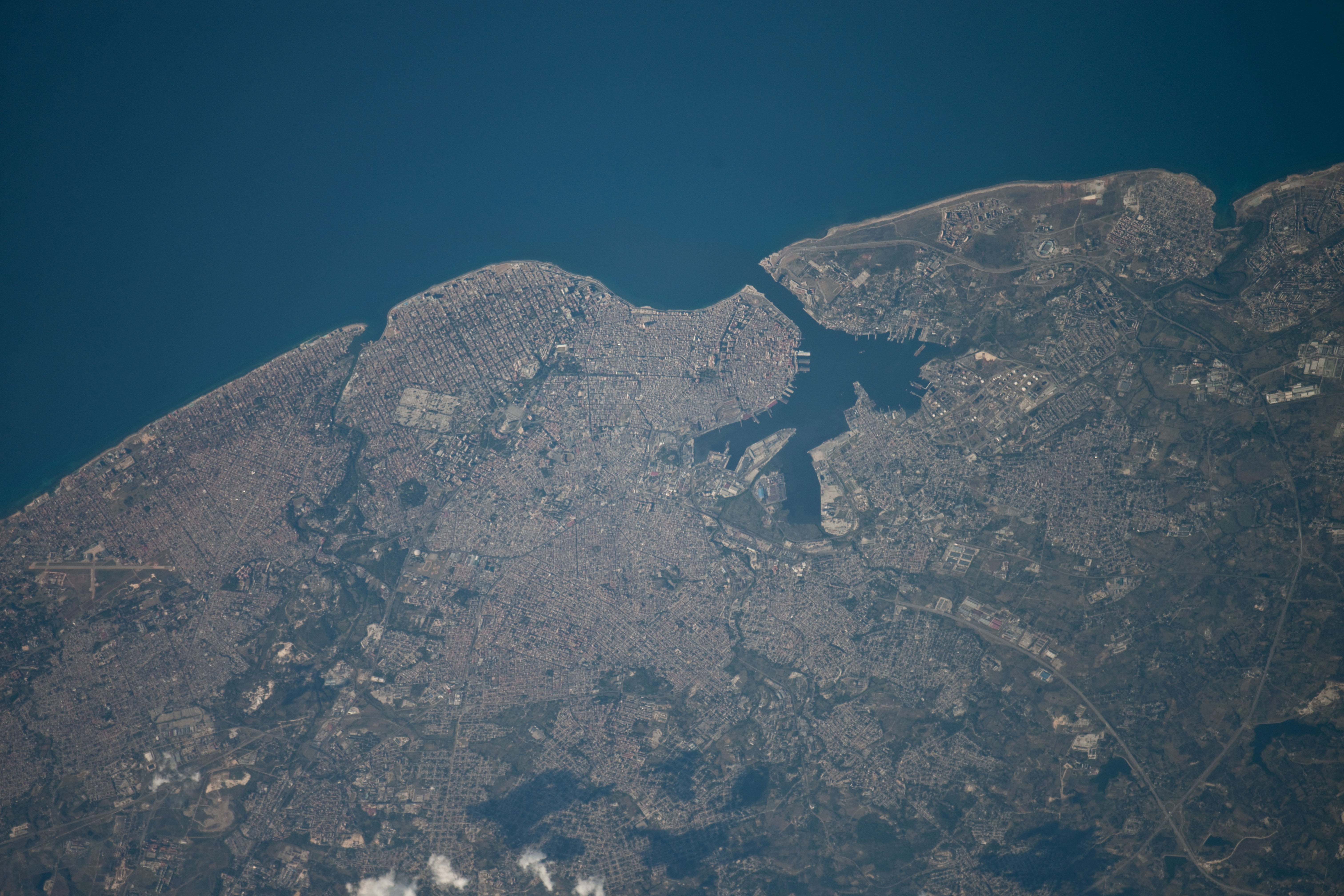 Astronaut Photo of Havana, Cuba taken from the International Space Station (ISS) during Expedition 22 on March 9, 2010.